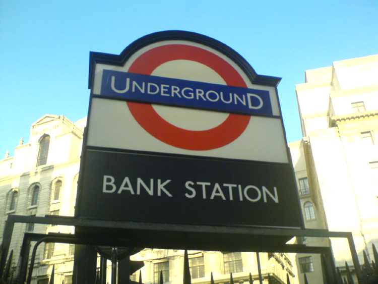 Bank Underground Station, City of London